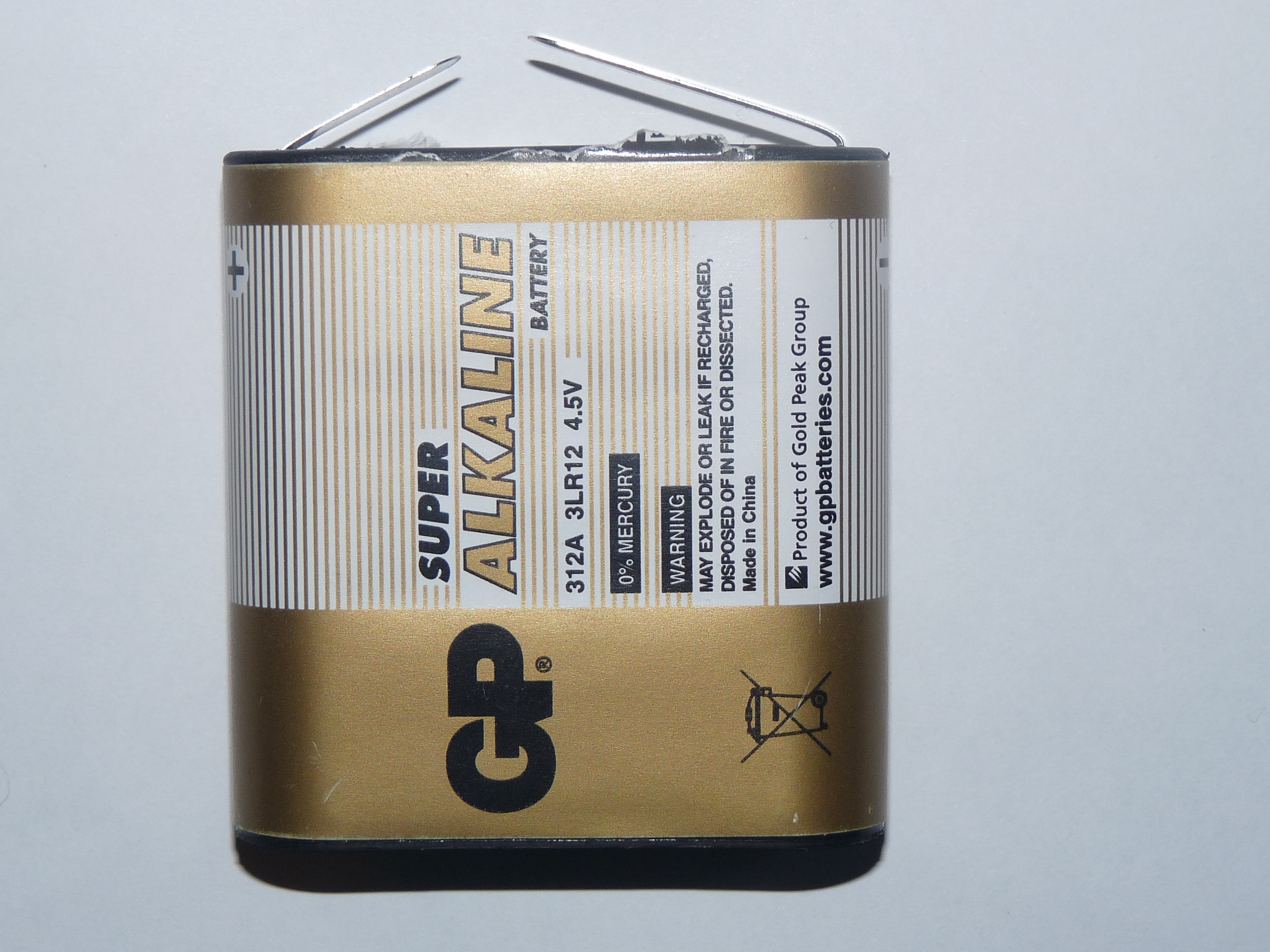 3R12 battery